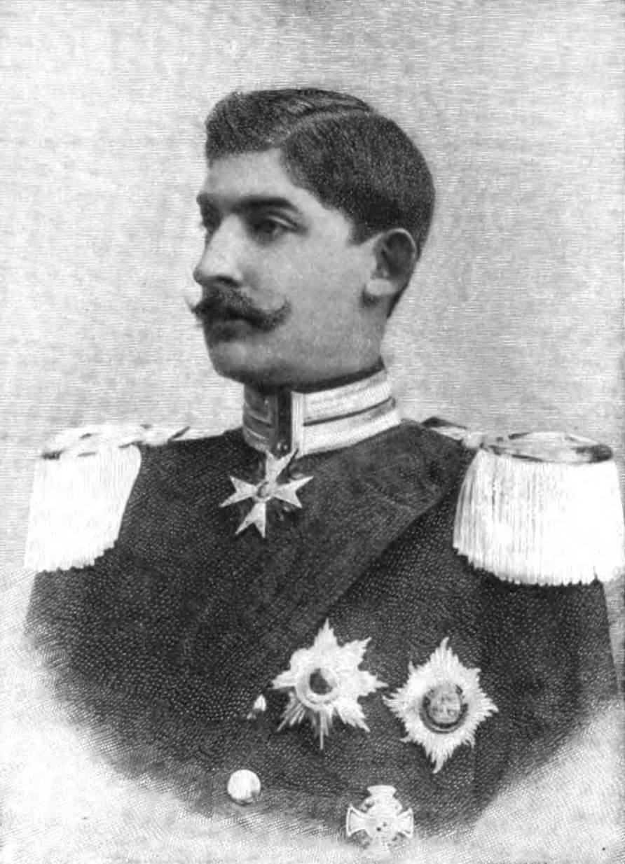 Ferdinand, Crown Prince of Roumenia